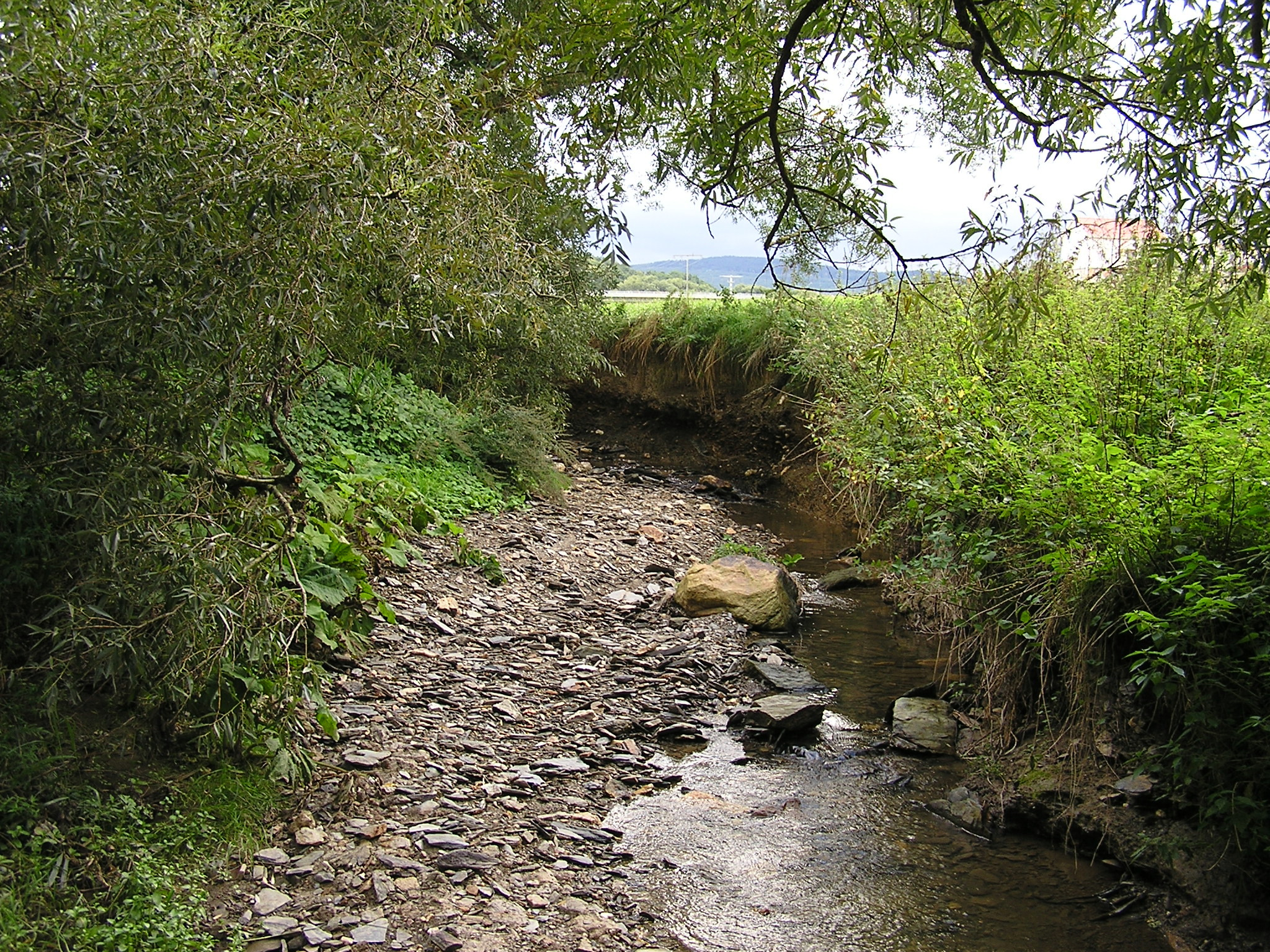 The Usa at Neu-Anspach